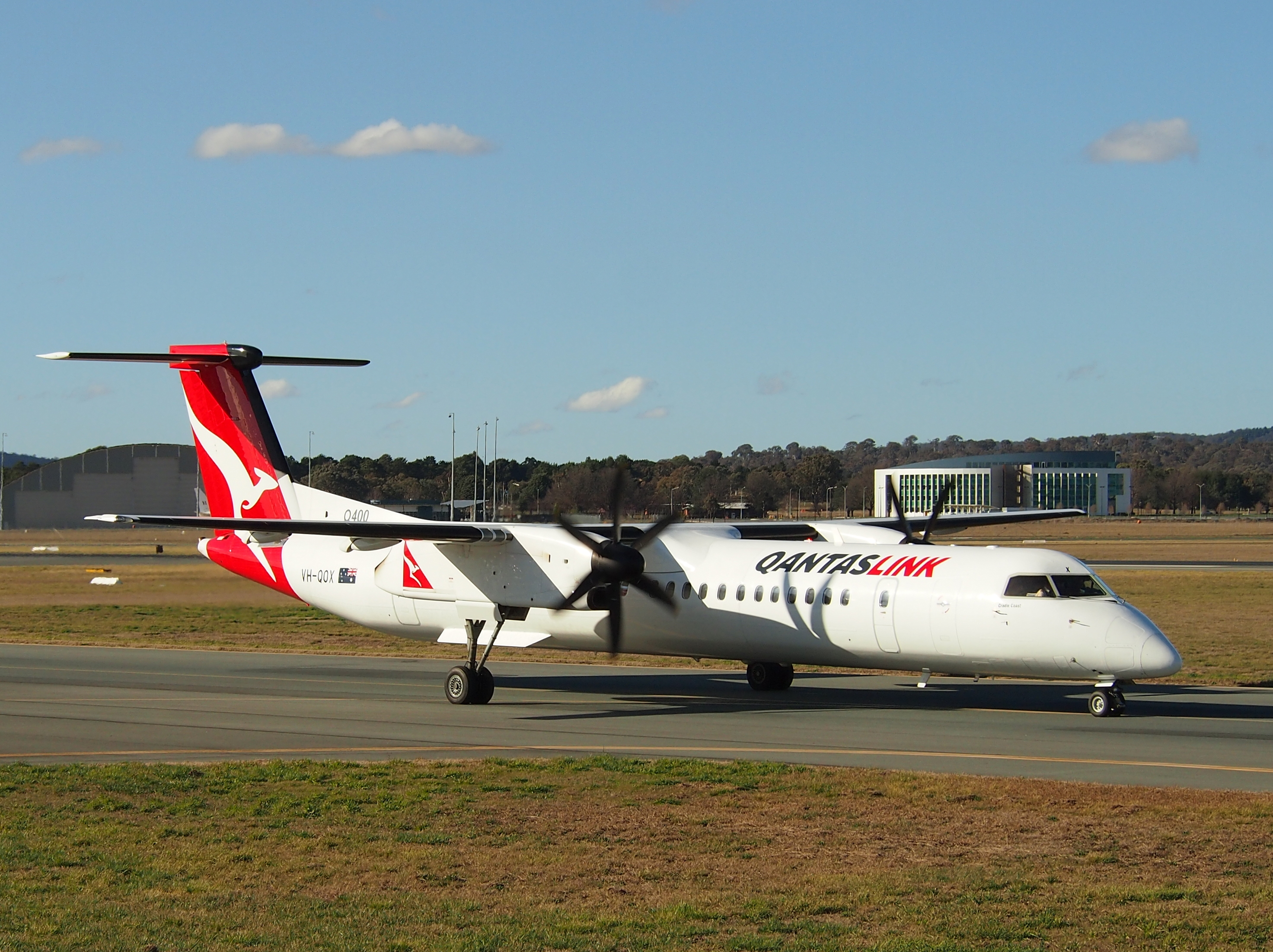 VH-QOX taxiing to take off at Canberra Airport